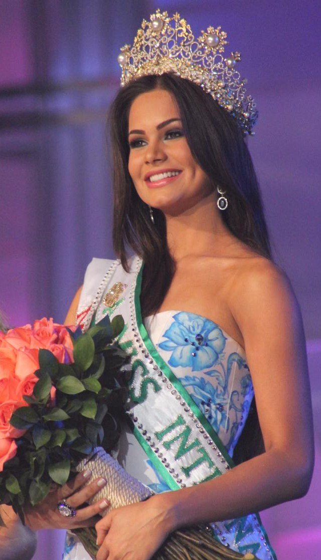 Miss Venezuela Internacional 2013.